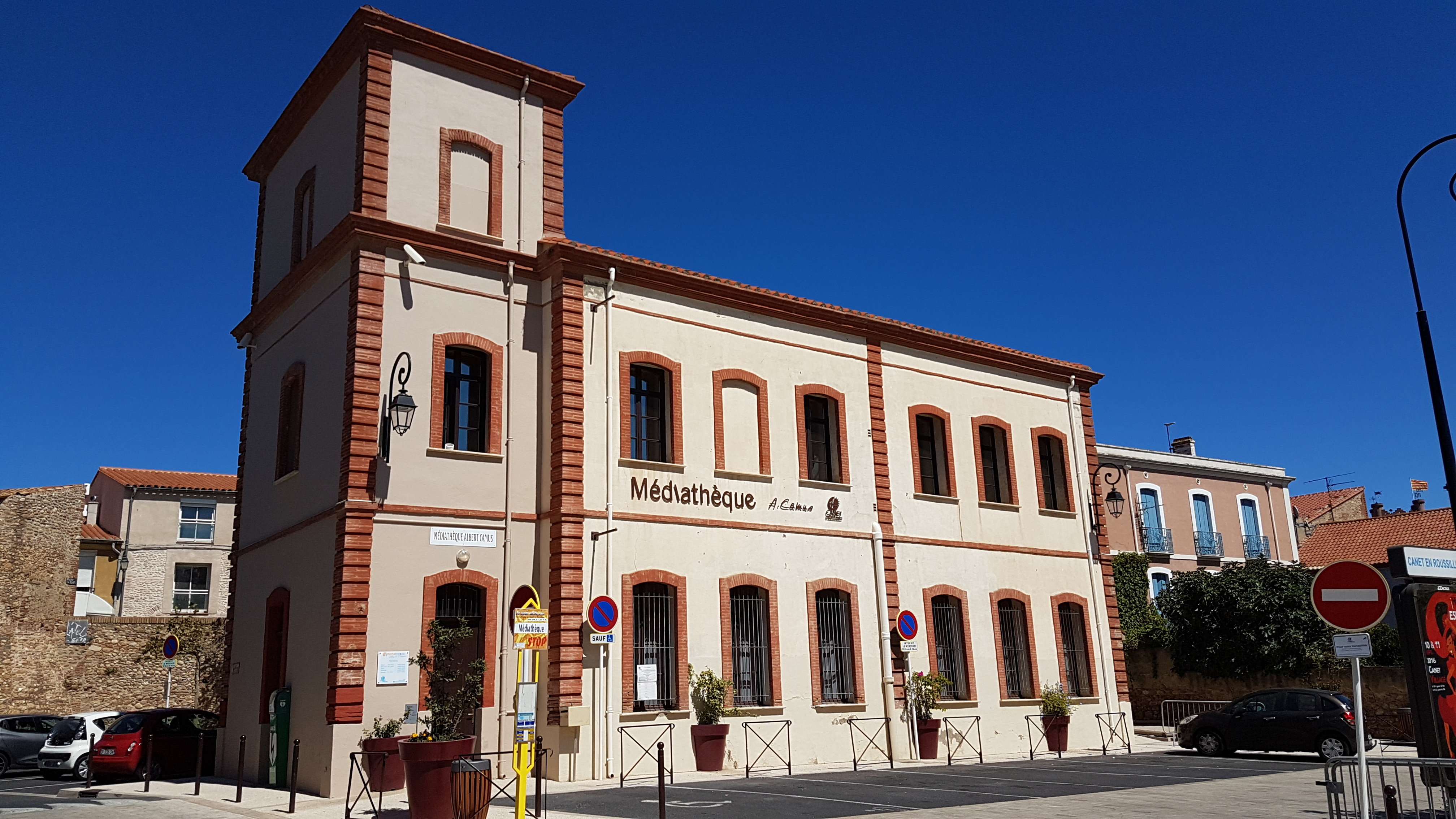 The public library of Canet-en-Roussillon